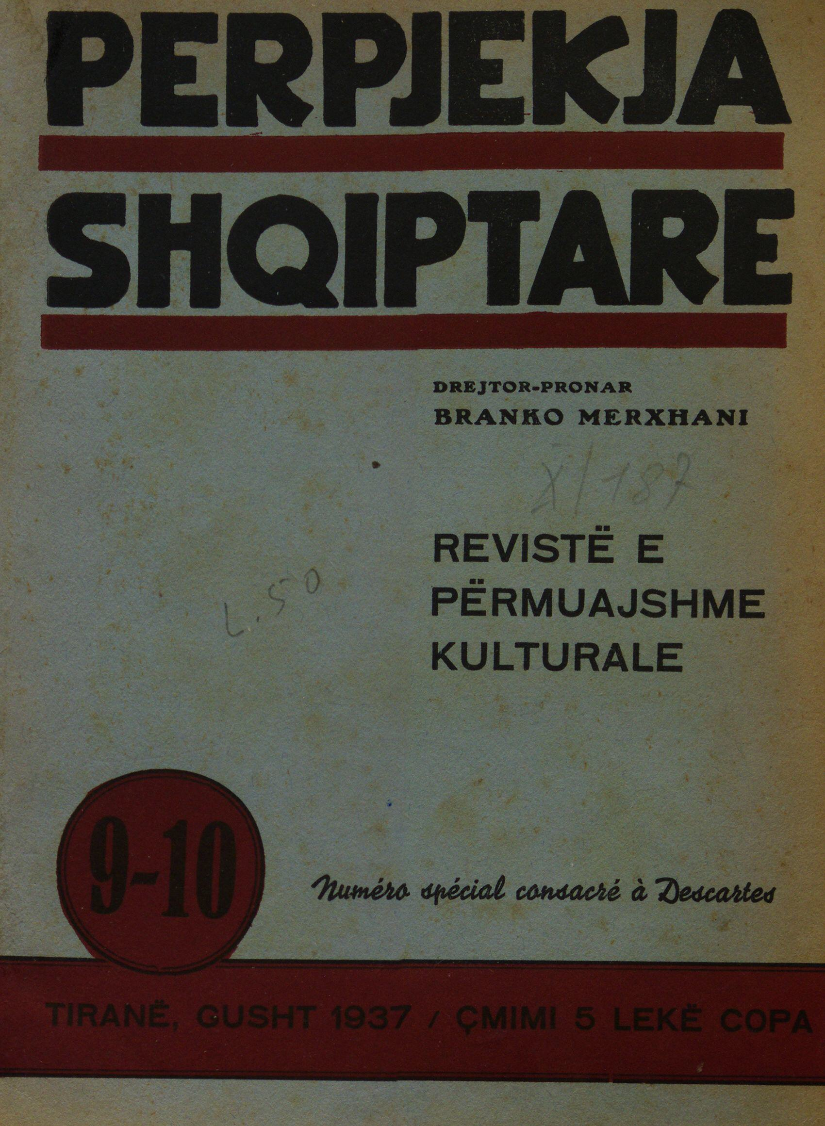 Cover of Përpjekja Shqiptare magazine